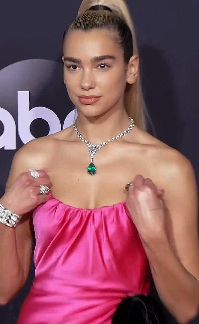 Dua Lipa at the 2019 American Music Awards